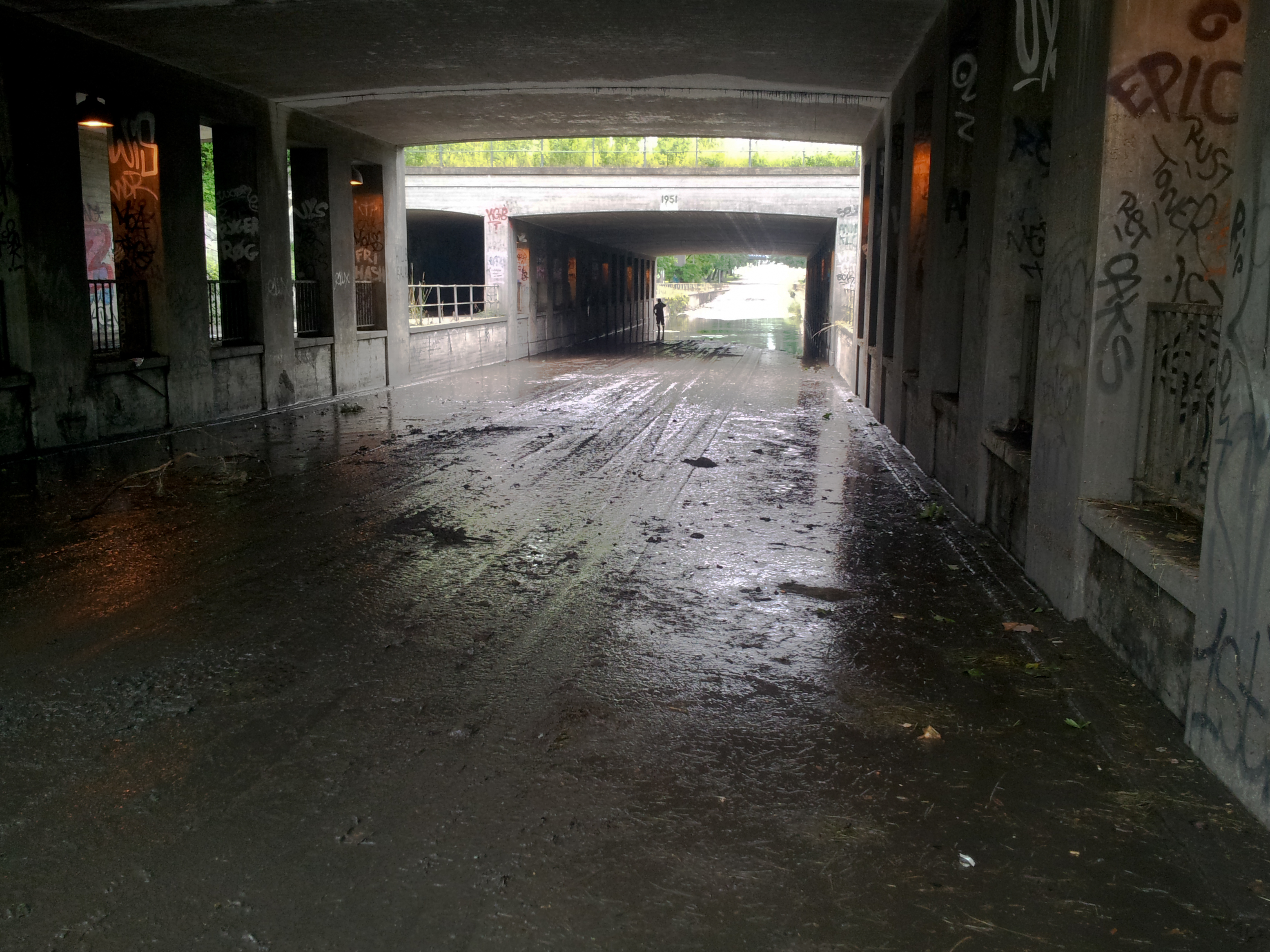 Lersø Parkallé passing under a street and a railway. During the torrential rain storm on 2 July 2011 this under passage got flooded from the sewage system and two days later, there still was a considerable amount of sewage water.